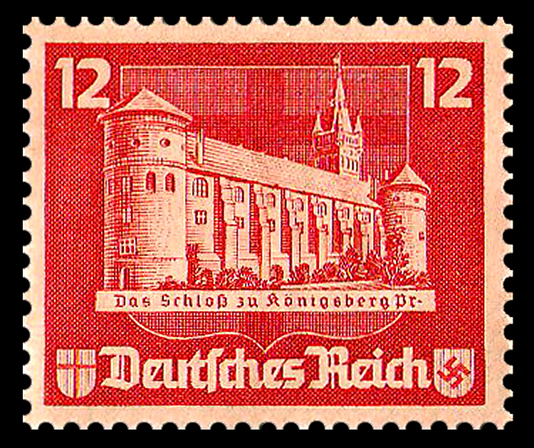 Stamps of the miniature sheet "OSTROPA" for the east european stamp exhibition in Kaliningrad (Königsberg) Ausgabepreis: 12 Pfennig First Day of Issue / Erstausgabetag: 23. Juni 1935 Michel-Katalog-Nr: 578 (Deutsches Reich)